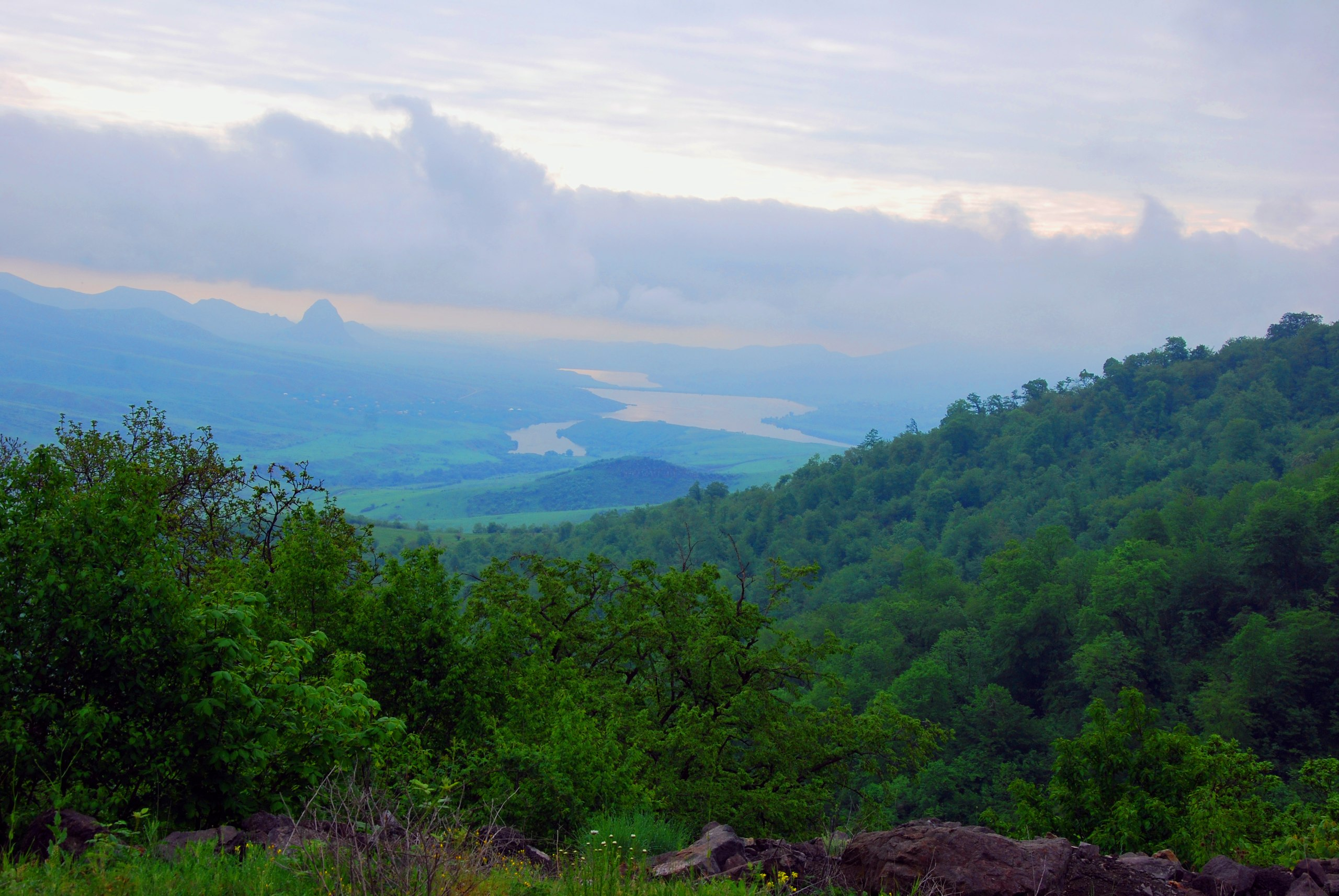 Noyemberyan